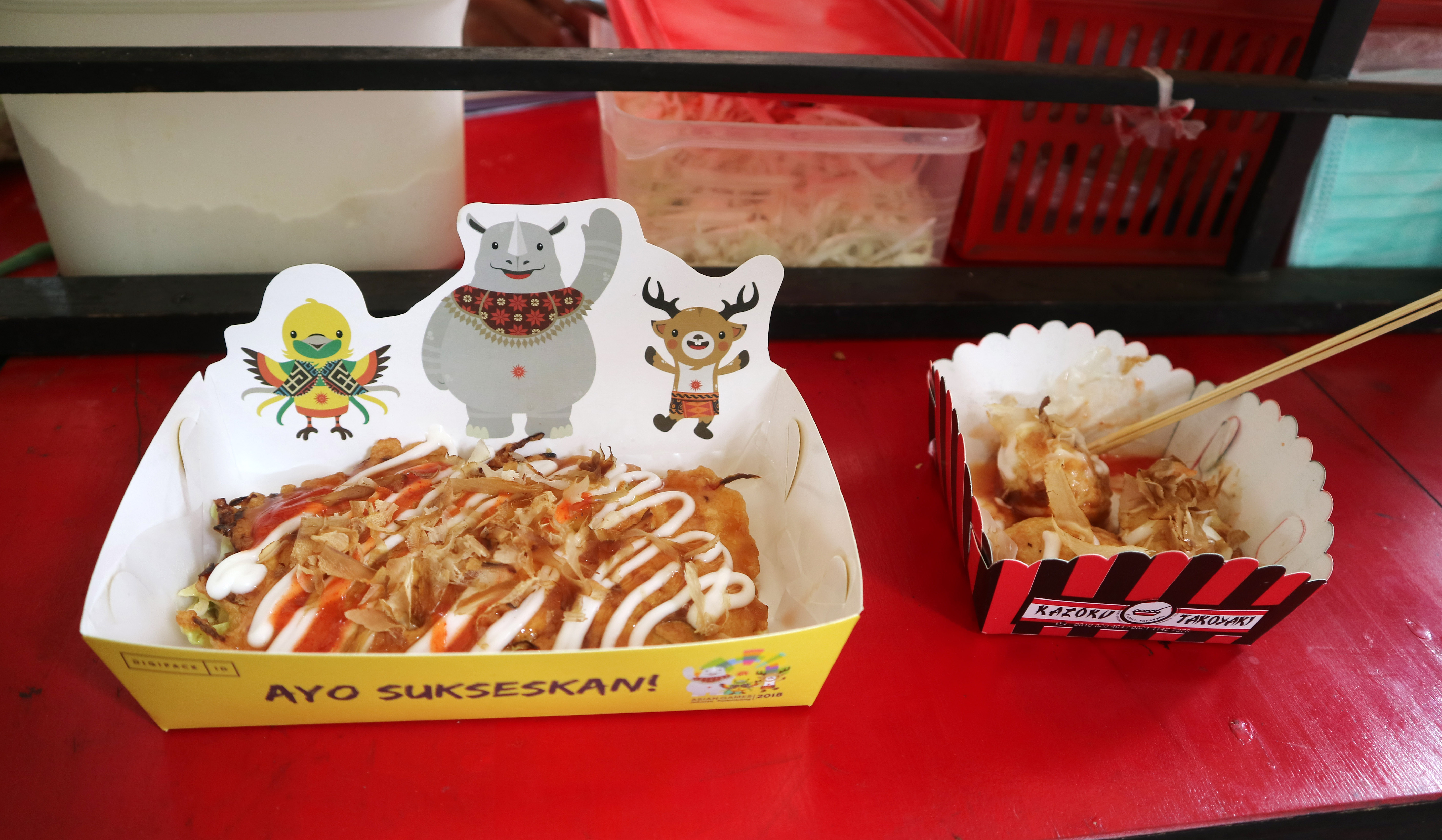 Okonomiyaki and Takoyaki, sold in a foodcourt of Asian Games 2018 venue, Gelora Bung Karno Stadium, Senayan, Central Jakarta, Indonesia.